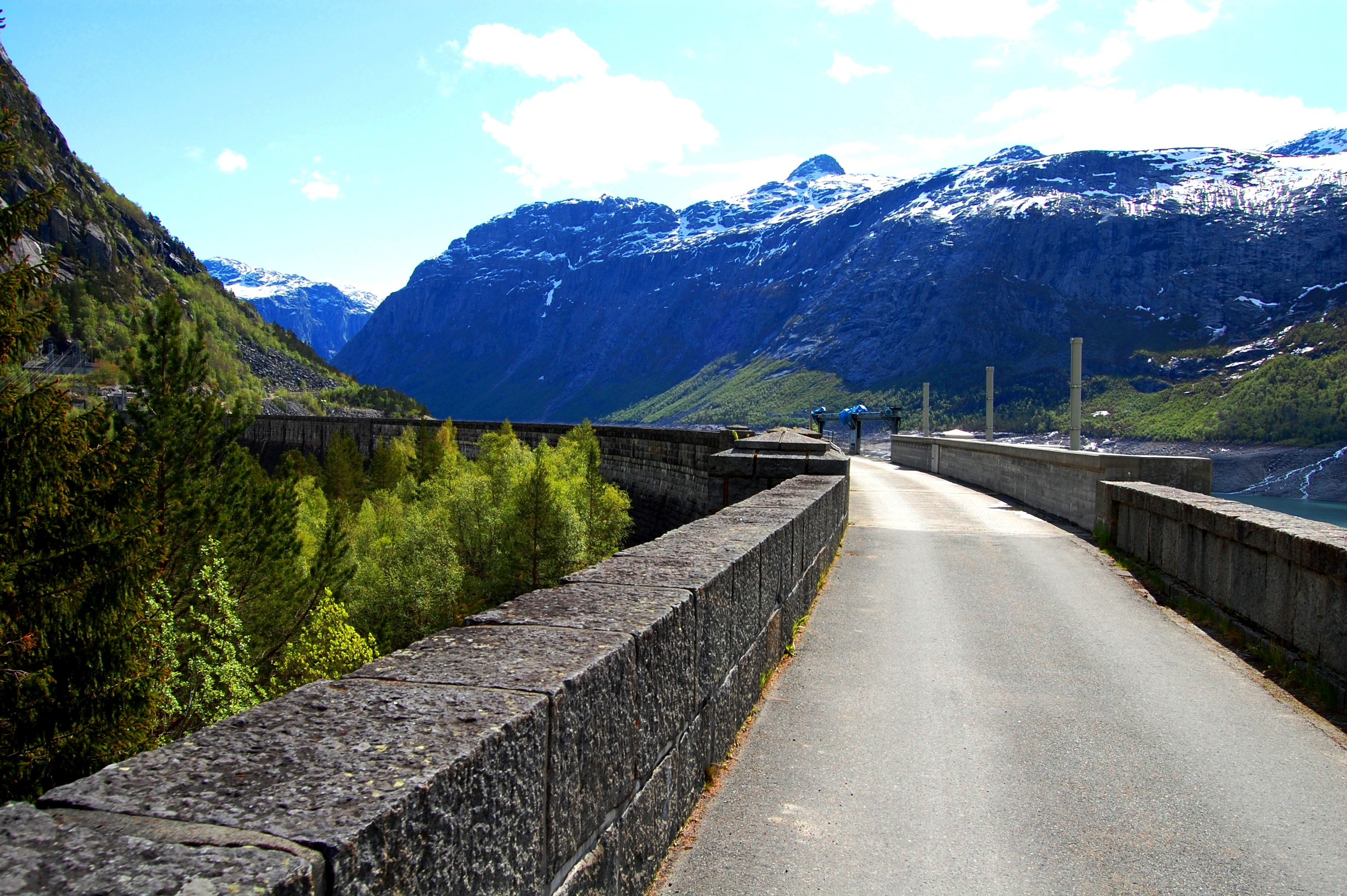 Ringedalsdammen